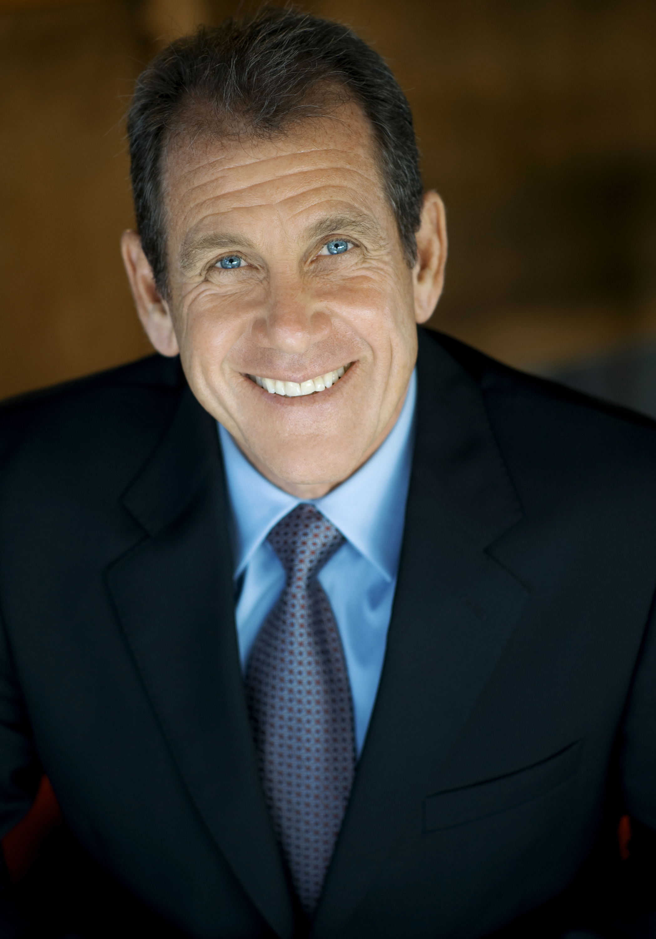 Portrait of comedian/hypnotherapist Mark Sweet (2008)